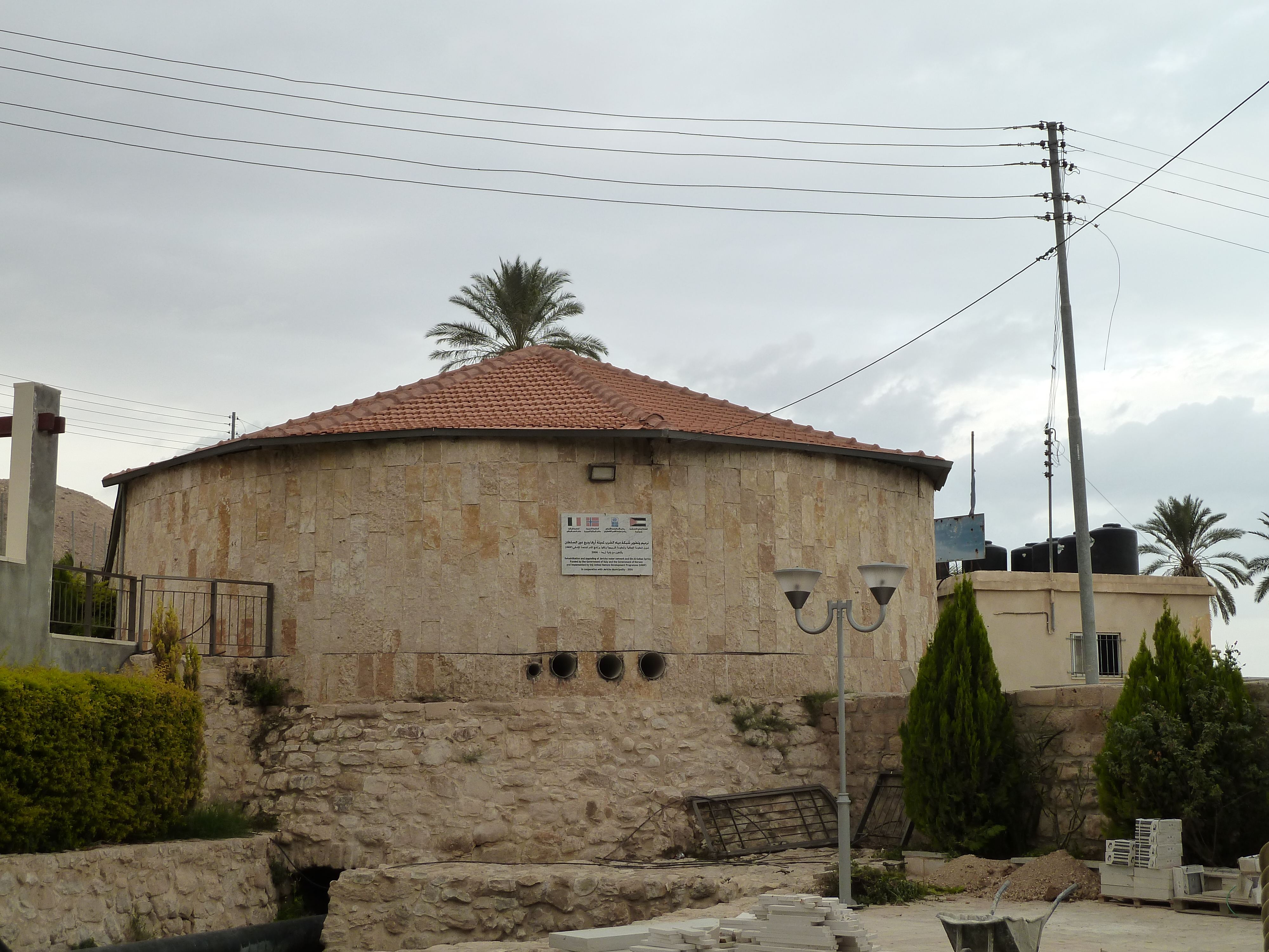 Elisha's Spring (Eliseus Spring), Ein El Sultan, Jericho